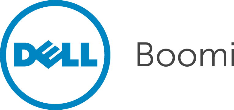 Dell Boomi Logo Sans RGB